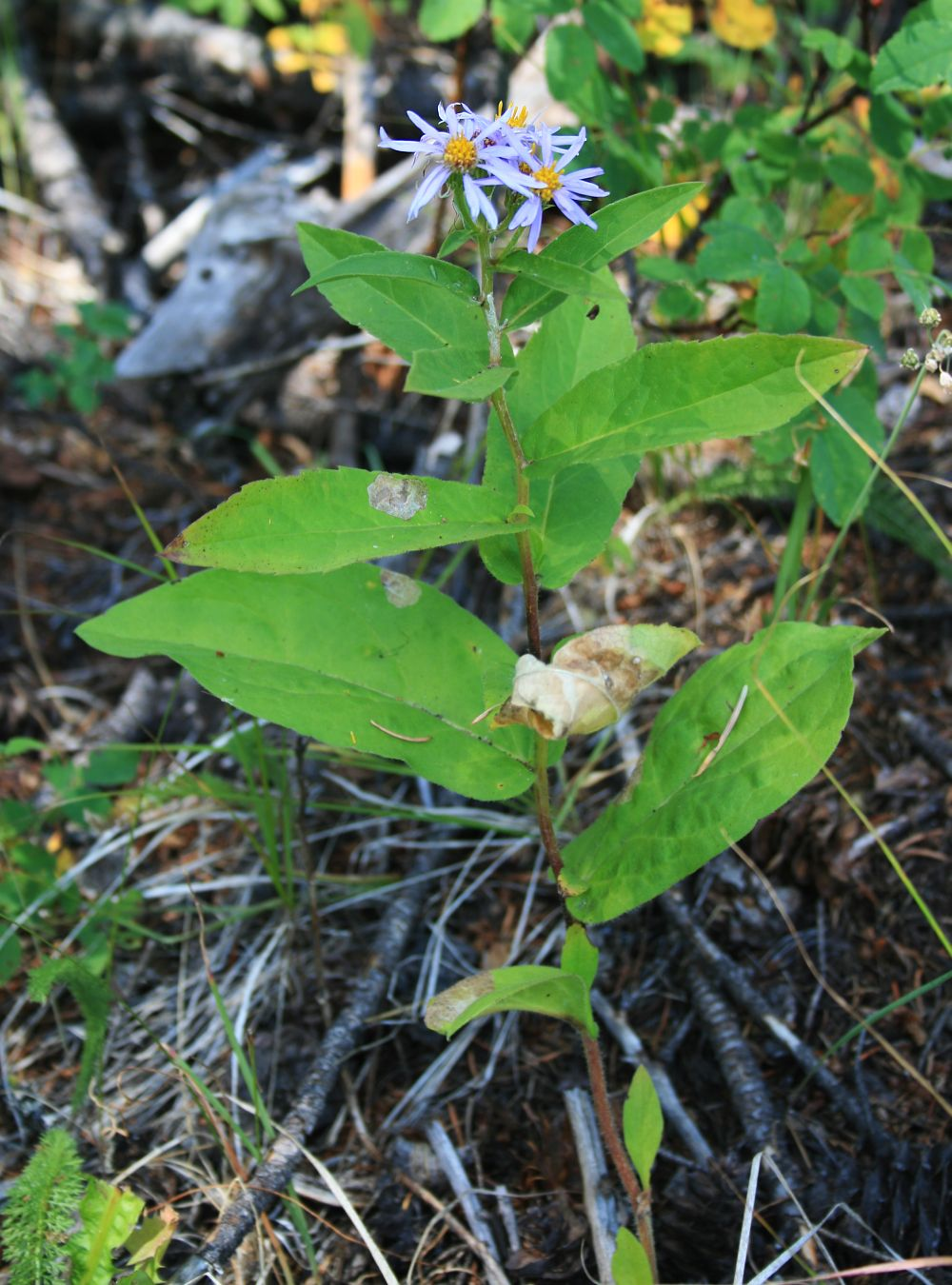 Eurybia conspicua, Korbblütler (Asteraceae) - Kanada/Canada: British Columbia, Opax Mountain 19–20 km NW Kamloops